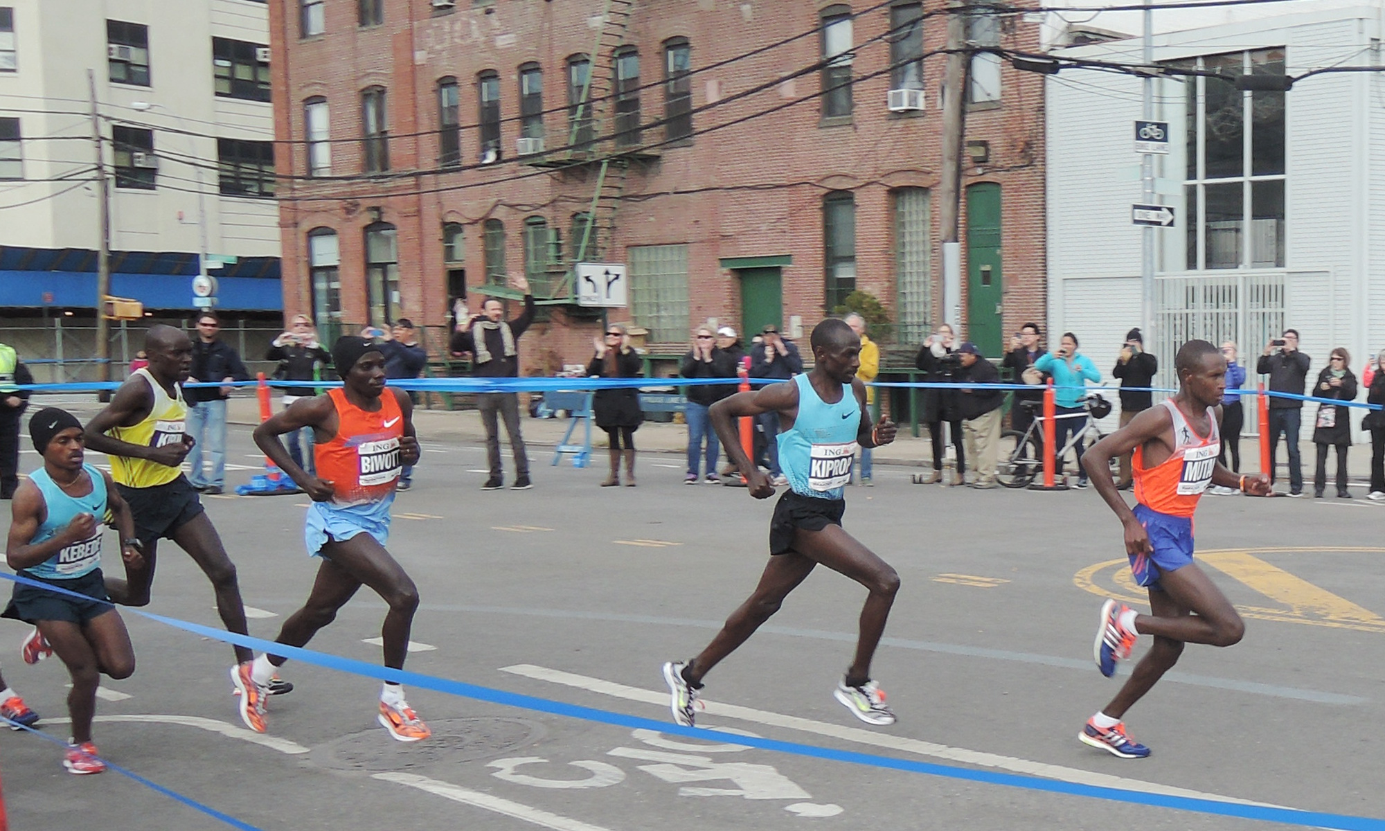 Looking northwest as lead men round the curve from 10th Street to 44th Road approaching mile 14.